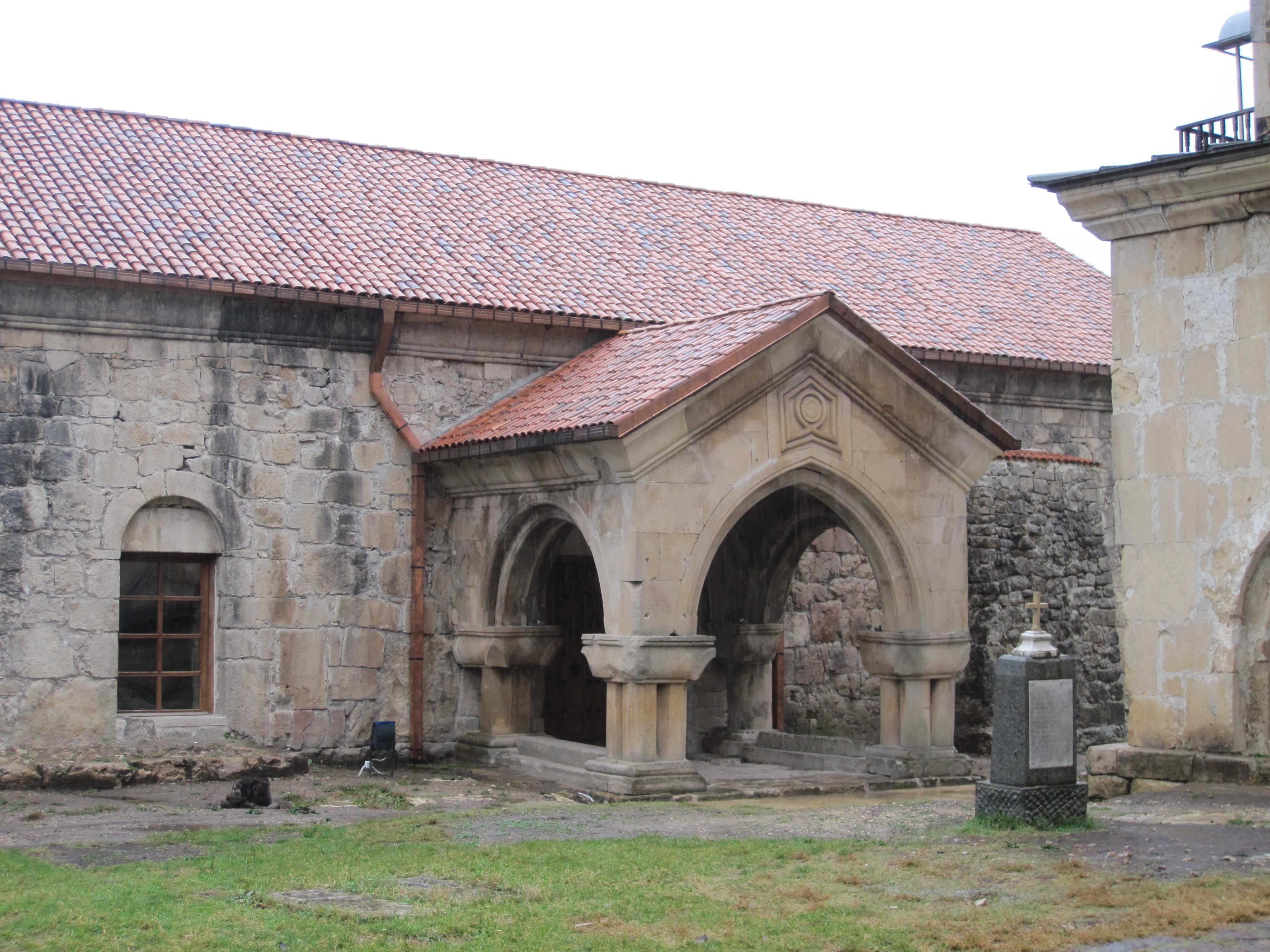 Gelati Monastery. Building of the Gelati Academy